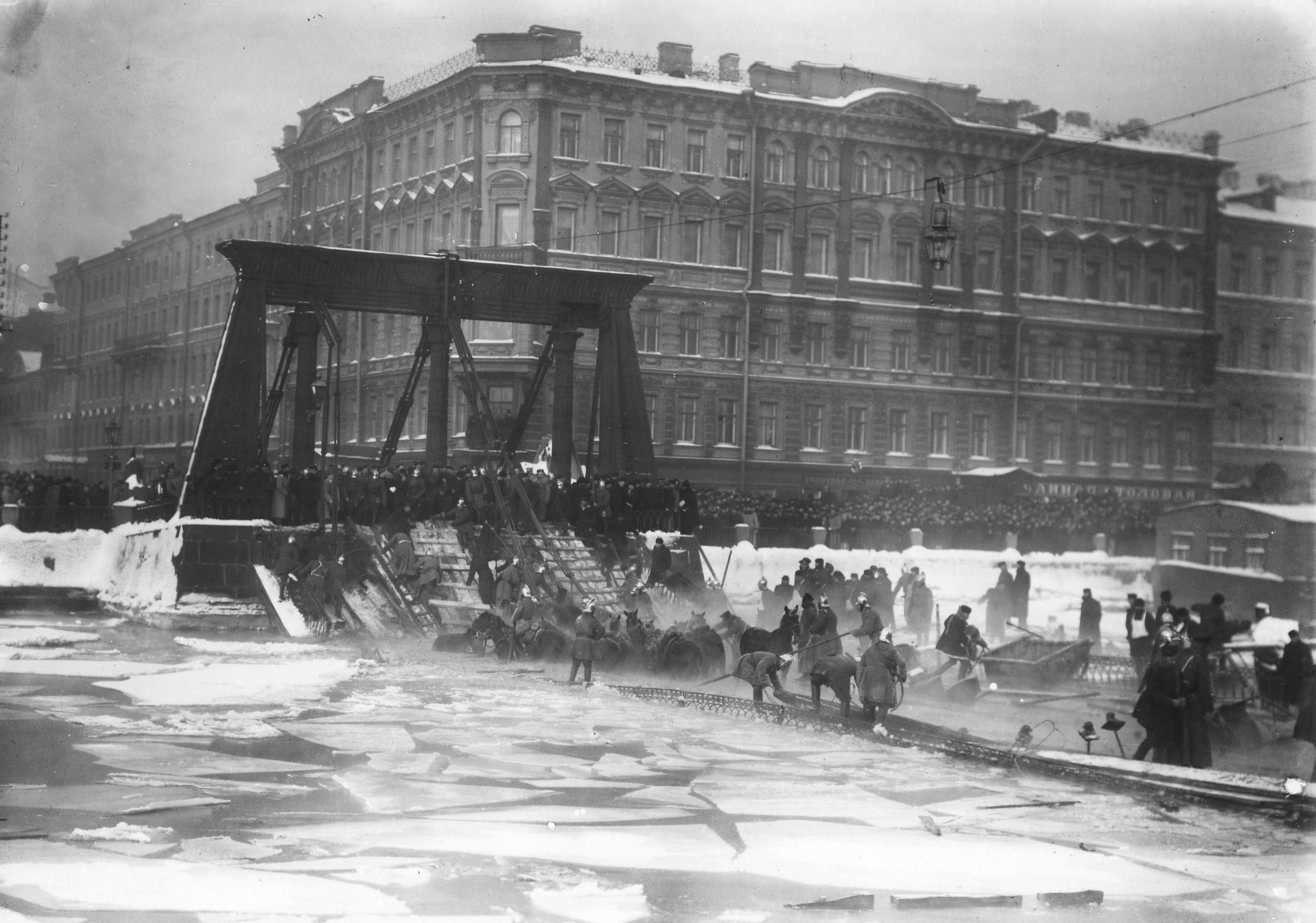 Collapse of the Egyptian Bridge in Saint Petersburg on February 2, 1905.